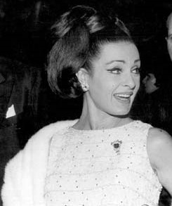 Silvana Pampanini-actriz italiana